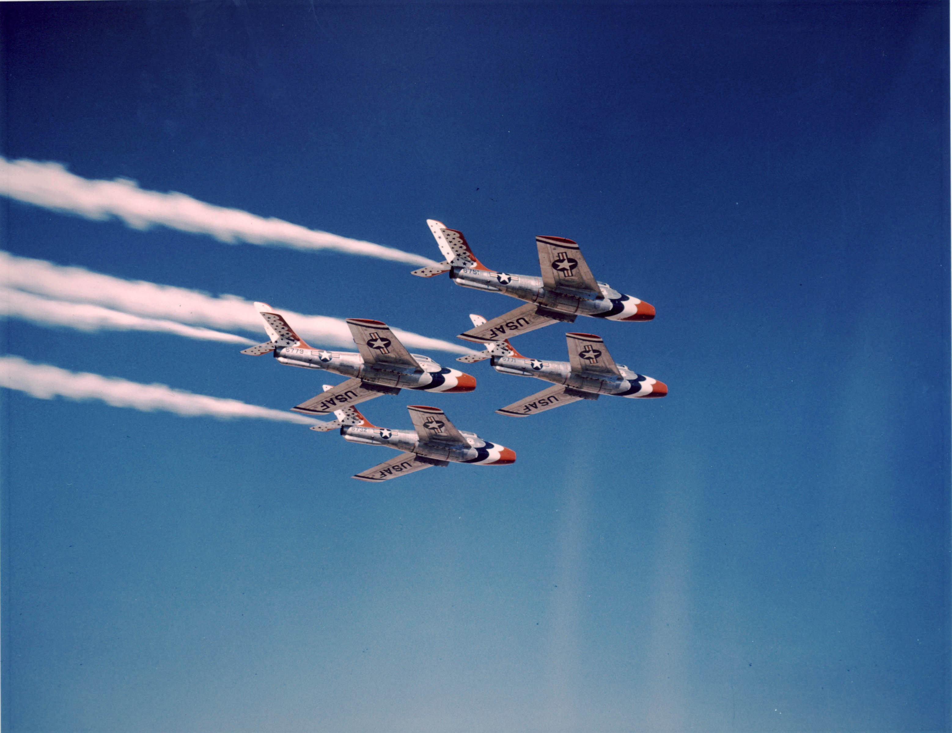 Four Republic F-84F Thunderstreak from the U.S. Air Force Thunderbirds aerobatics team flying in formation in 1955/56.